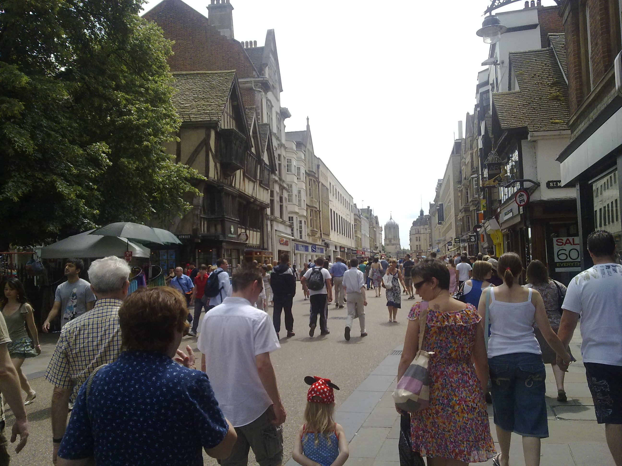 Cornmarket Street, Oxford, England: view looking south from Magdalen Street towards Tom Tower of Christ Church.